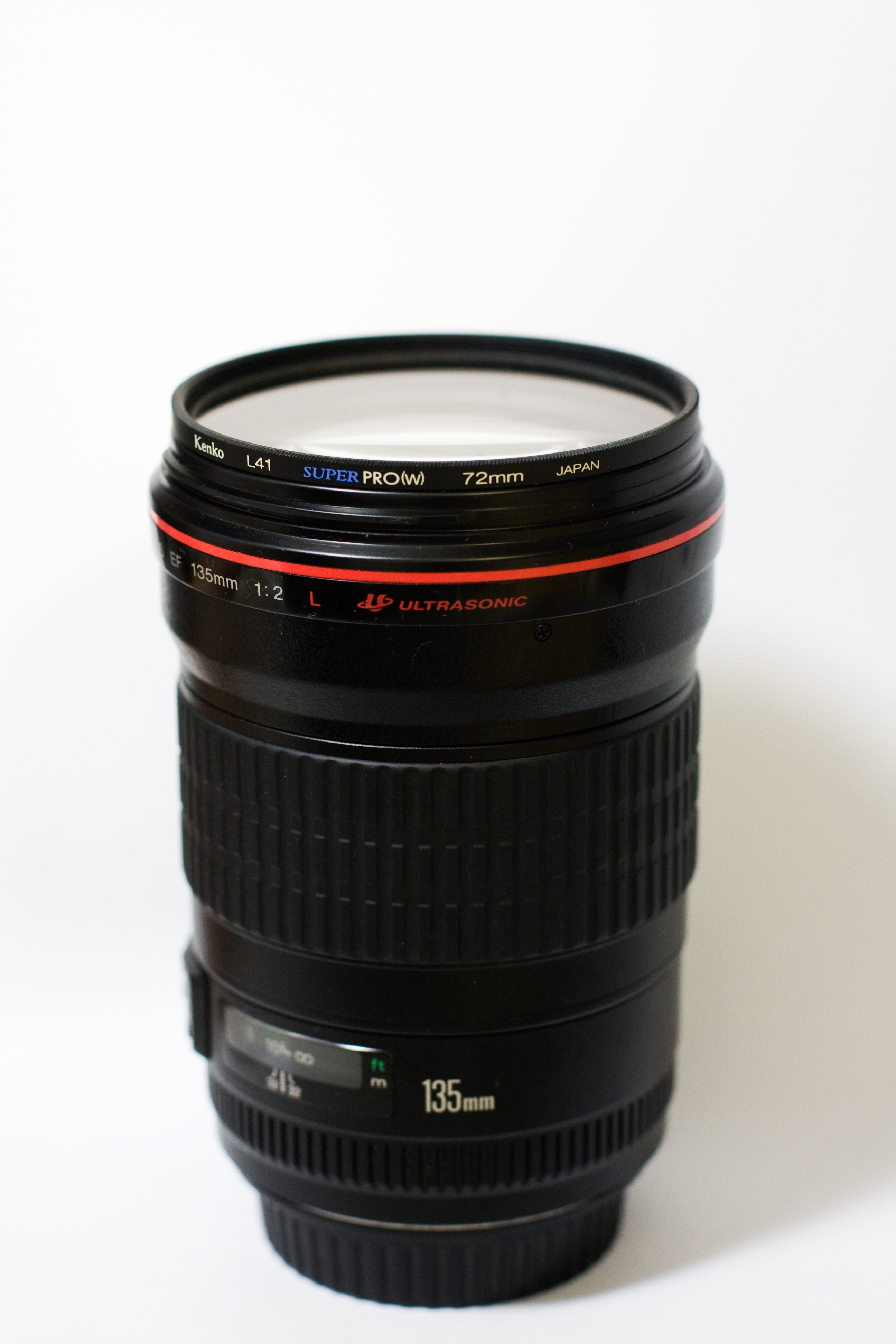 Canon EF 135mm f2L lens